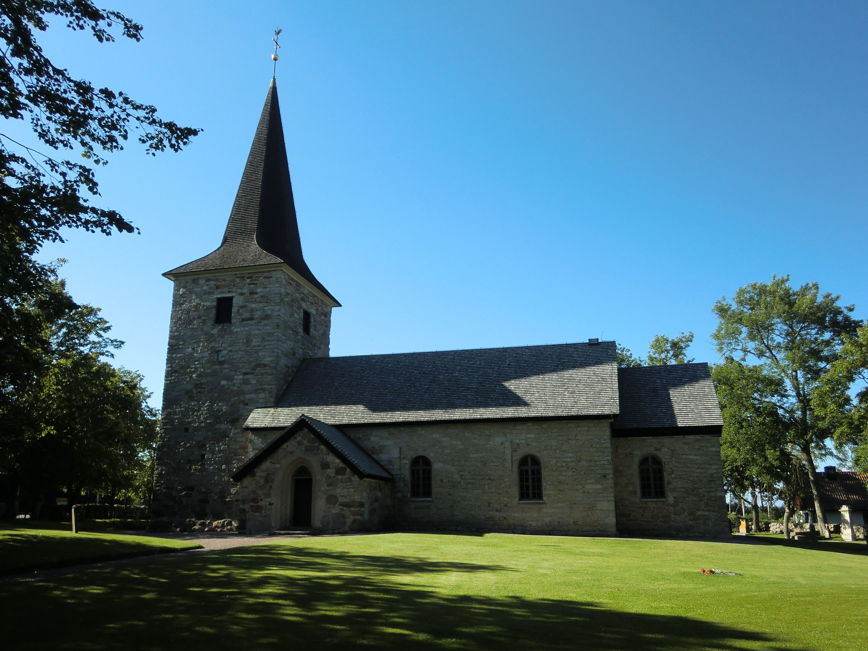 Råda church, near Lidköping, Sweden. View from south.